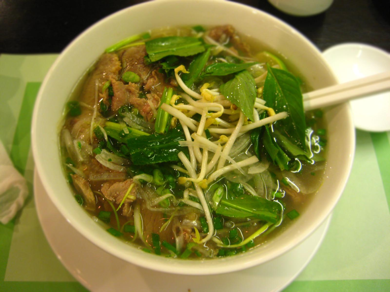 The first breakfast in Vietnam just had to be nothing else, but a bowl of Pho.